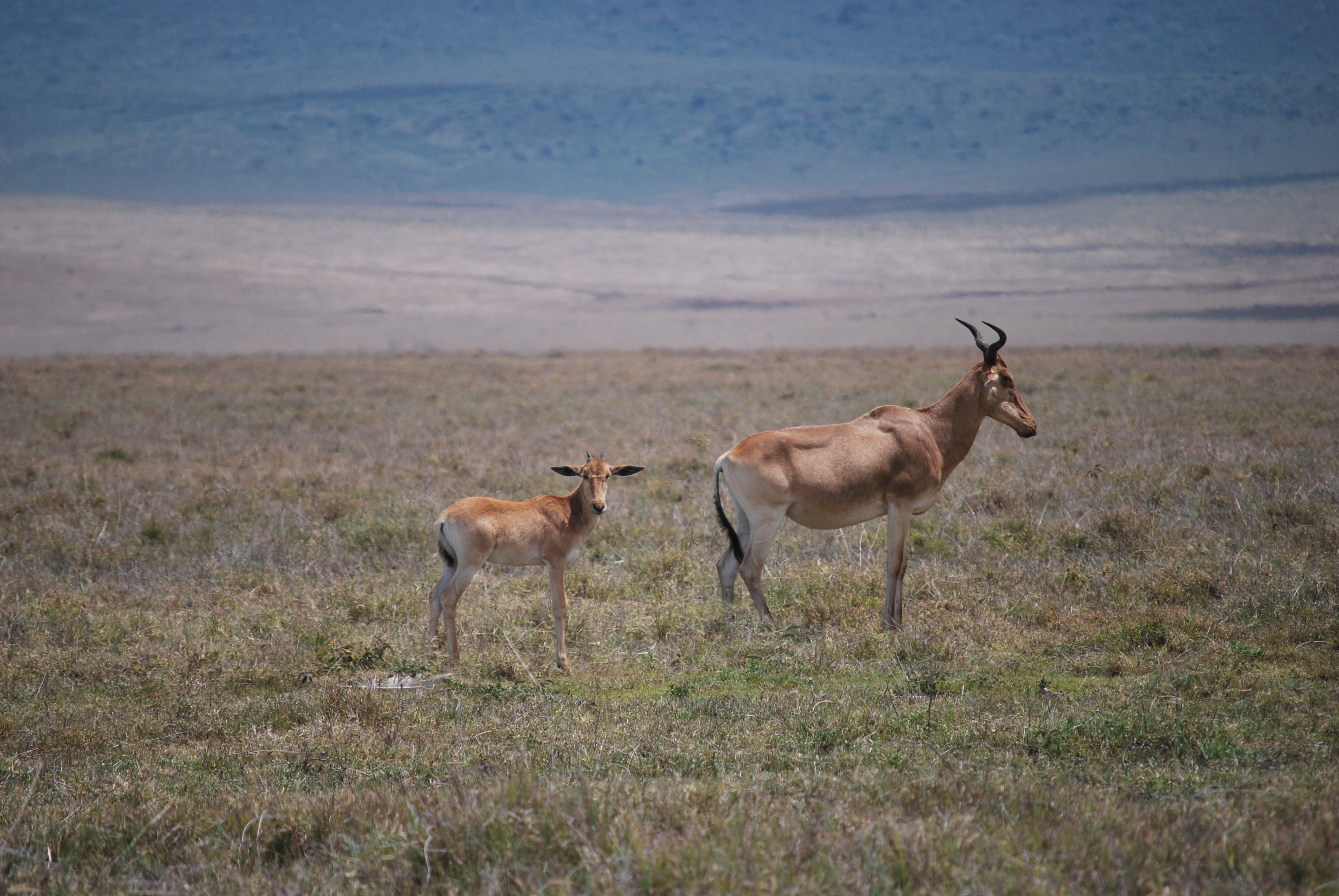 Baby hartebeest with parent